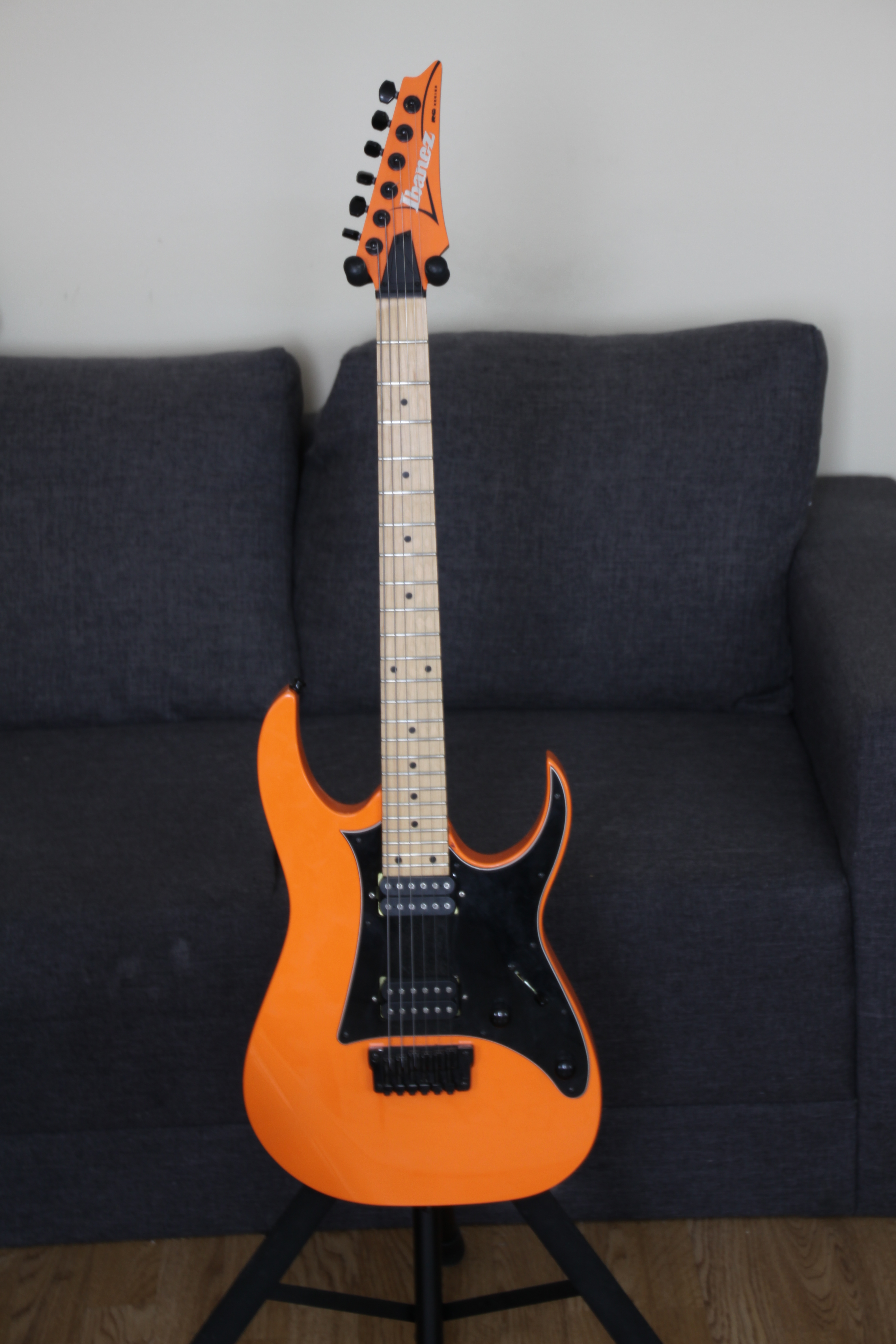 Ibanez RG331M BOR -electric guitar